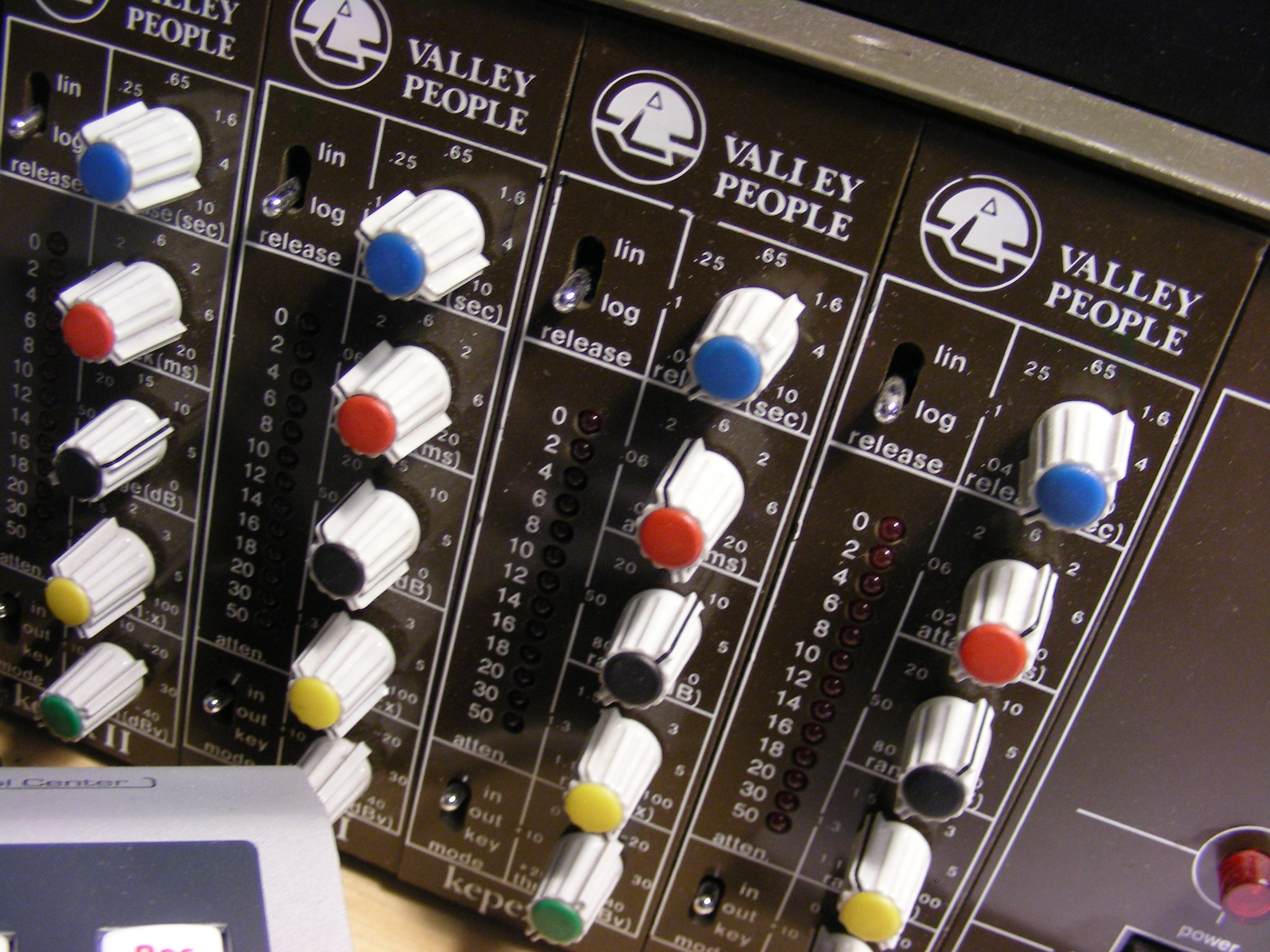 Valley People KEPEX II [1] For cutting things up :)